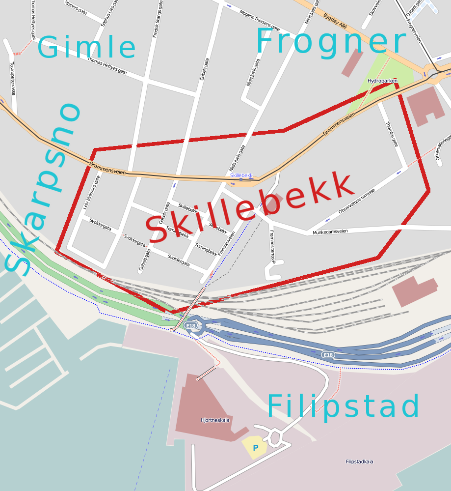 Approximate location of the Oslo neighborhood of Skillebekk (in red).